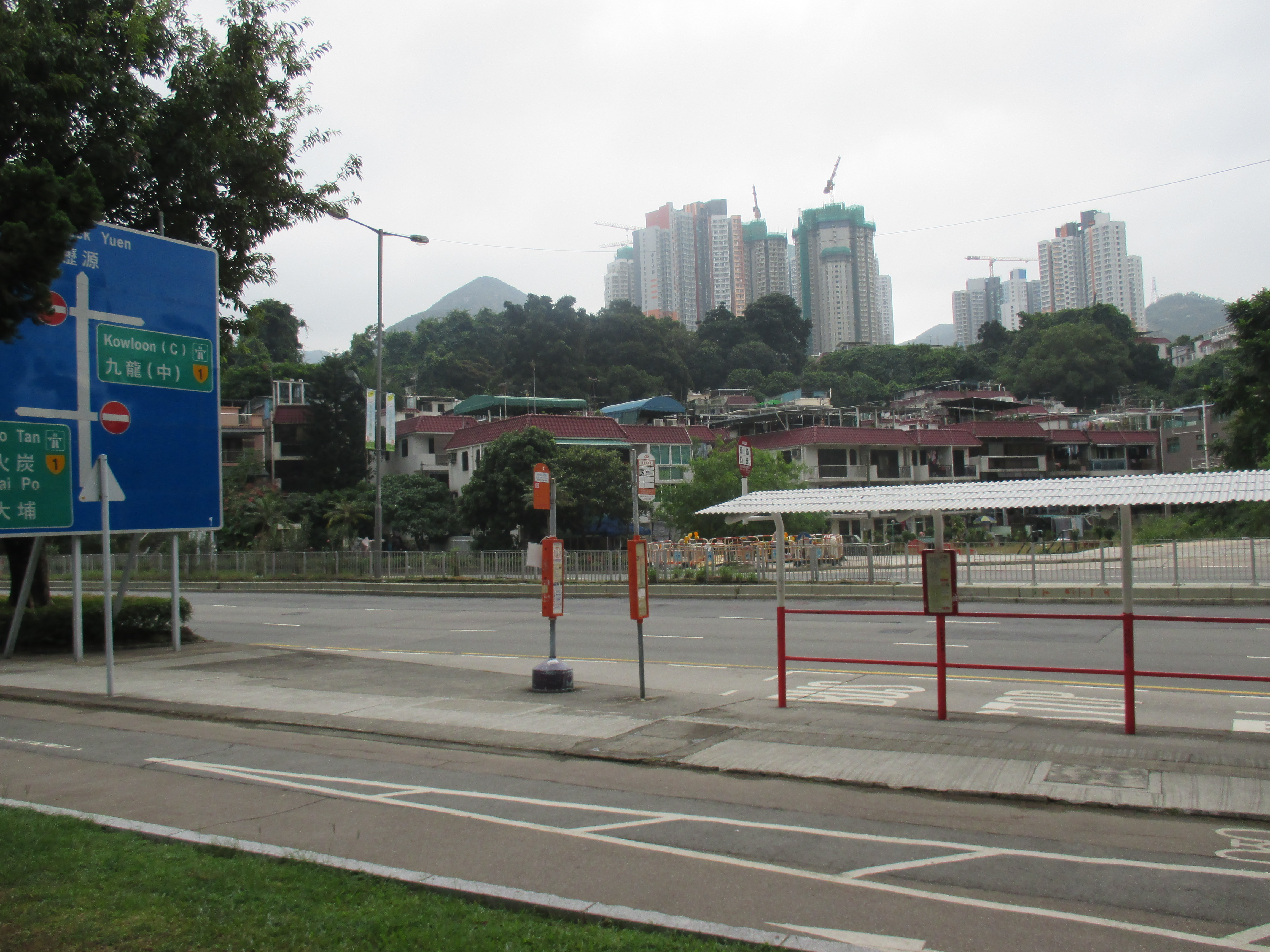 View of Sha Tin Wai village across Sha Tin Wai Road.